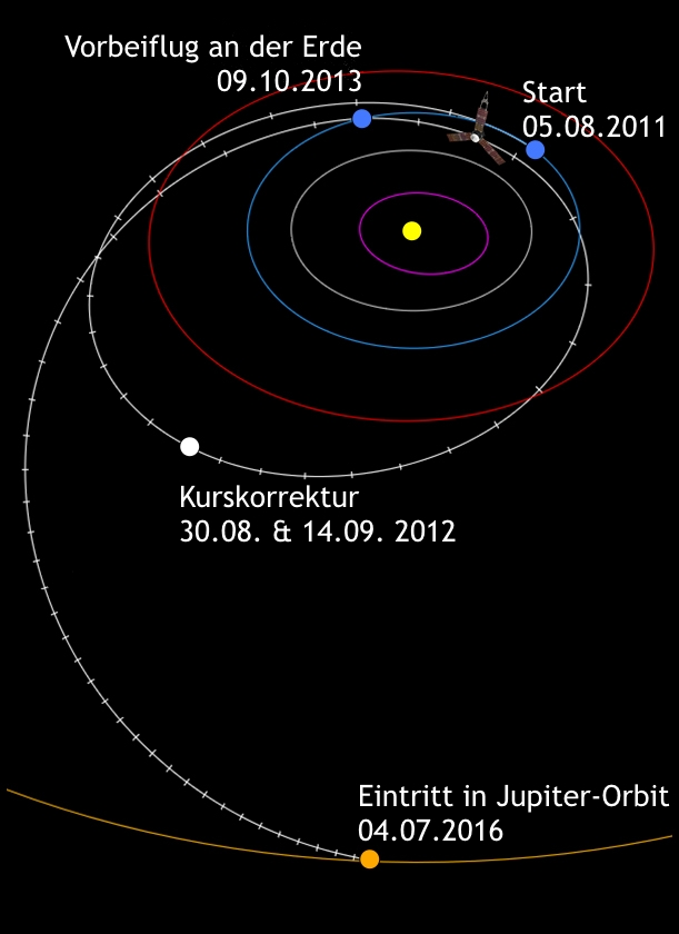 The flight path of the Juno spaceprobe.